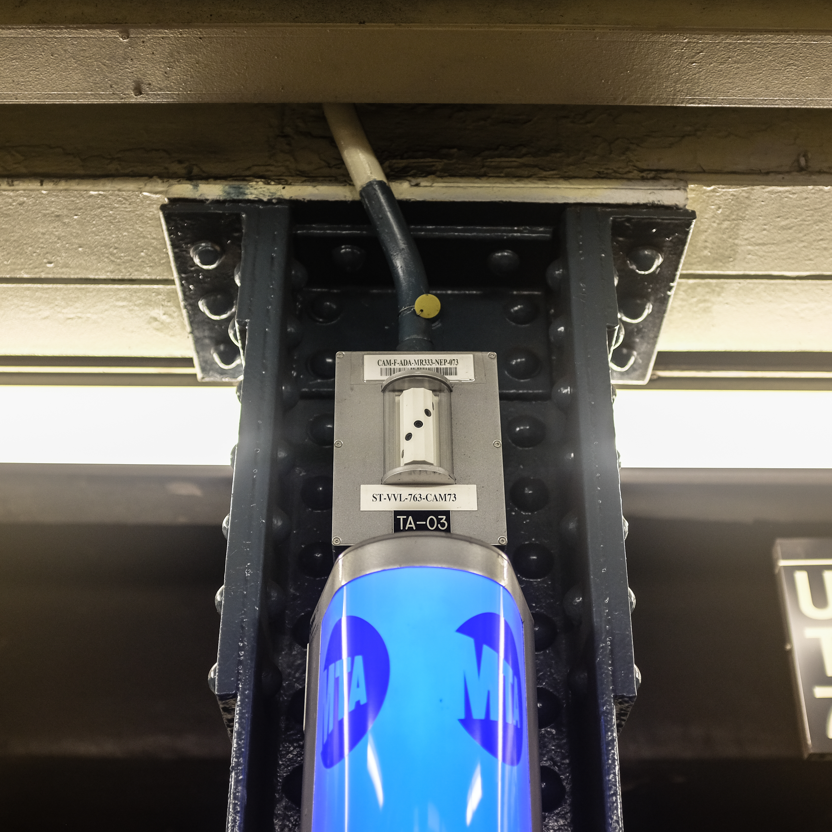 This camera is a model from which is now under the government contractor friendly name "Blackhawk Imaging." The marketing departments of these firms seem to enjoy having rather hostile themes on their websites.